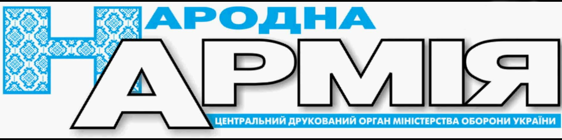 Газета Народна армія